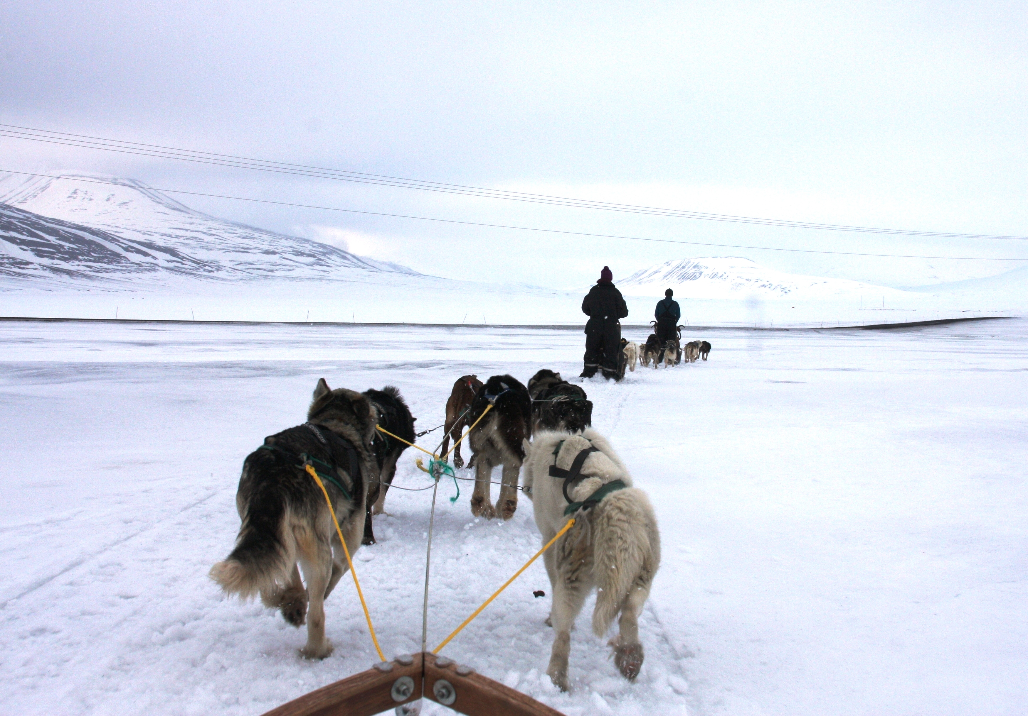 Greenland Dog trecking in Advent Valley, east of Longyearbyen.